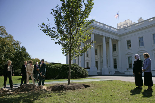 President George W. Bush and Laura Bush take part in the planting of three elm trees on the north grounds of the White House Monday, Oct. 2, 2006. The trees, cultivated by the National Park Service, replace trees recently lost to age, winds and Dutch elm disease. The new trees were grown to be resistant to the disease. White House photo by Eric Draper